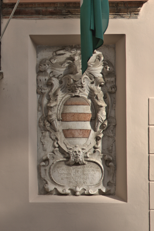 Coat of arm of Venier family on the town hall of Crema (Italy)